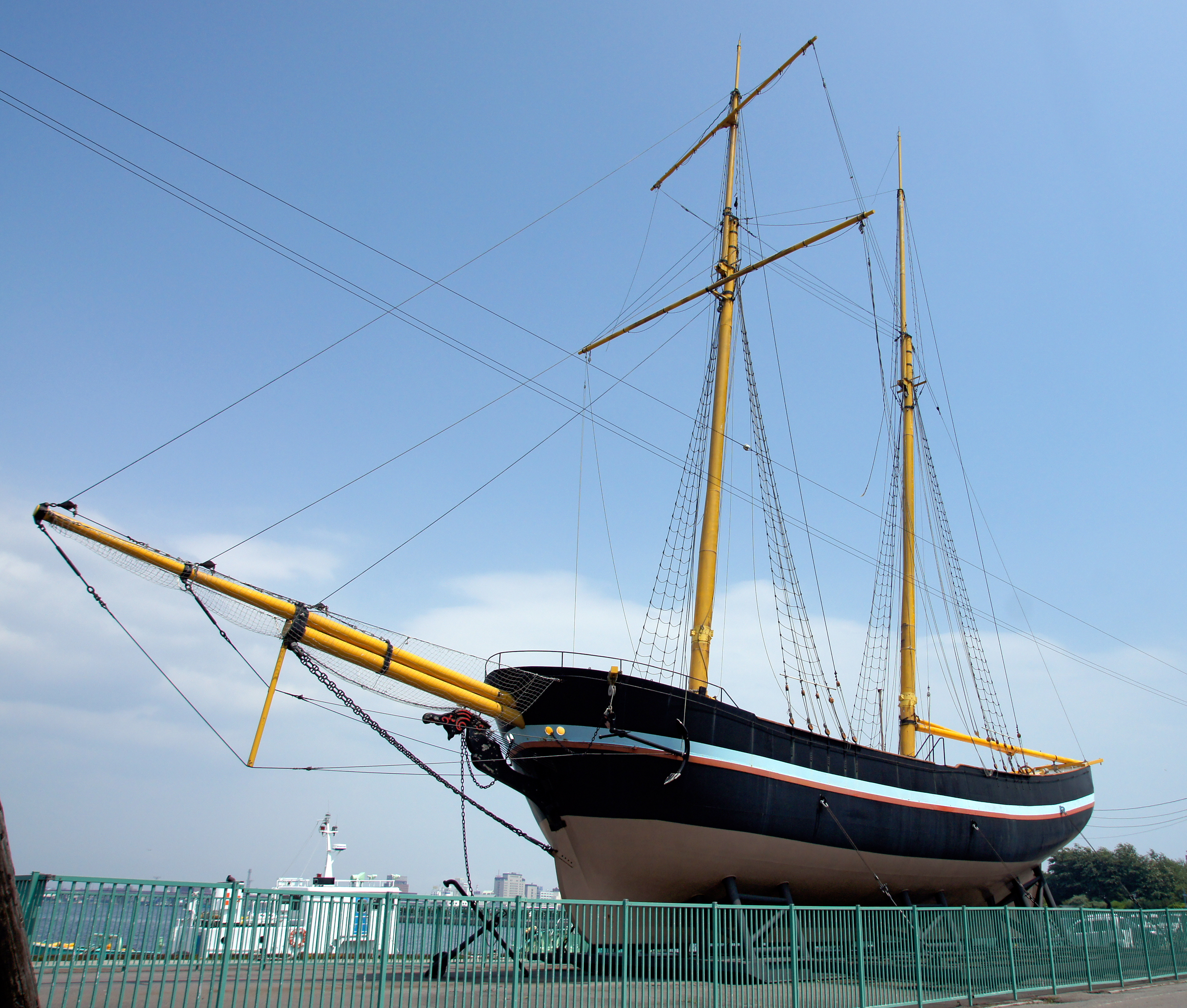 Hakodate Maru at Hakodate, Hokkaido prefecture, Japan